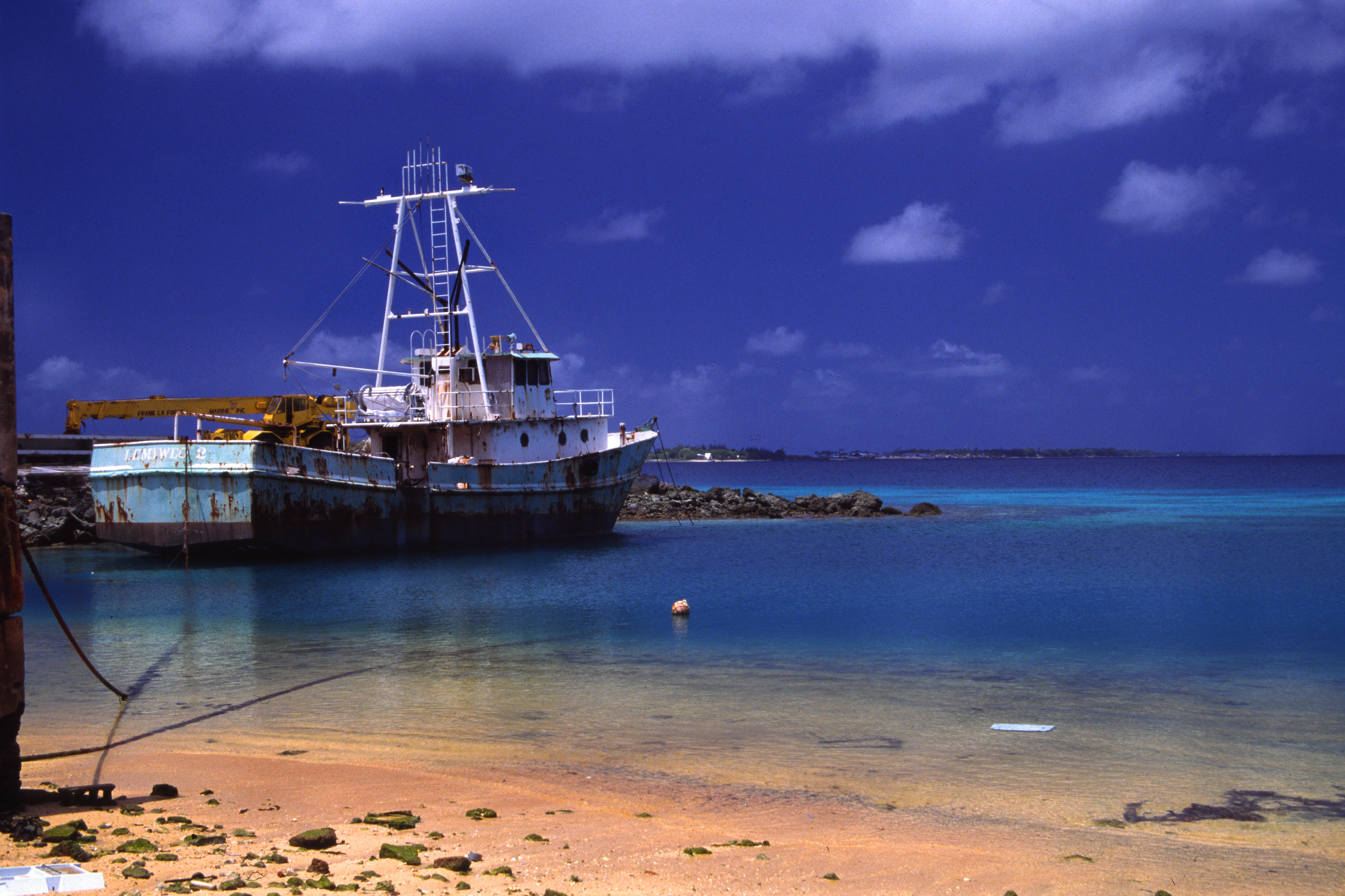 [scanned slide from March 2000] I really like the colors in this shot . . . I was very happy that I had brought a polarizer filter 'cause that makes all the difference when capturing deep and clear colors in a place like this.